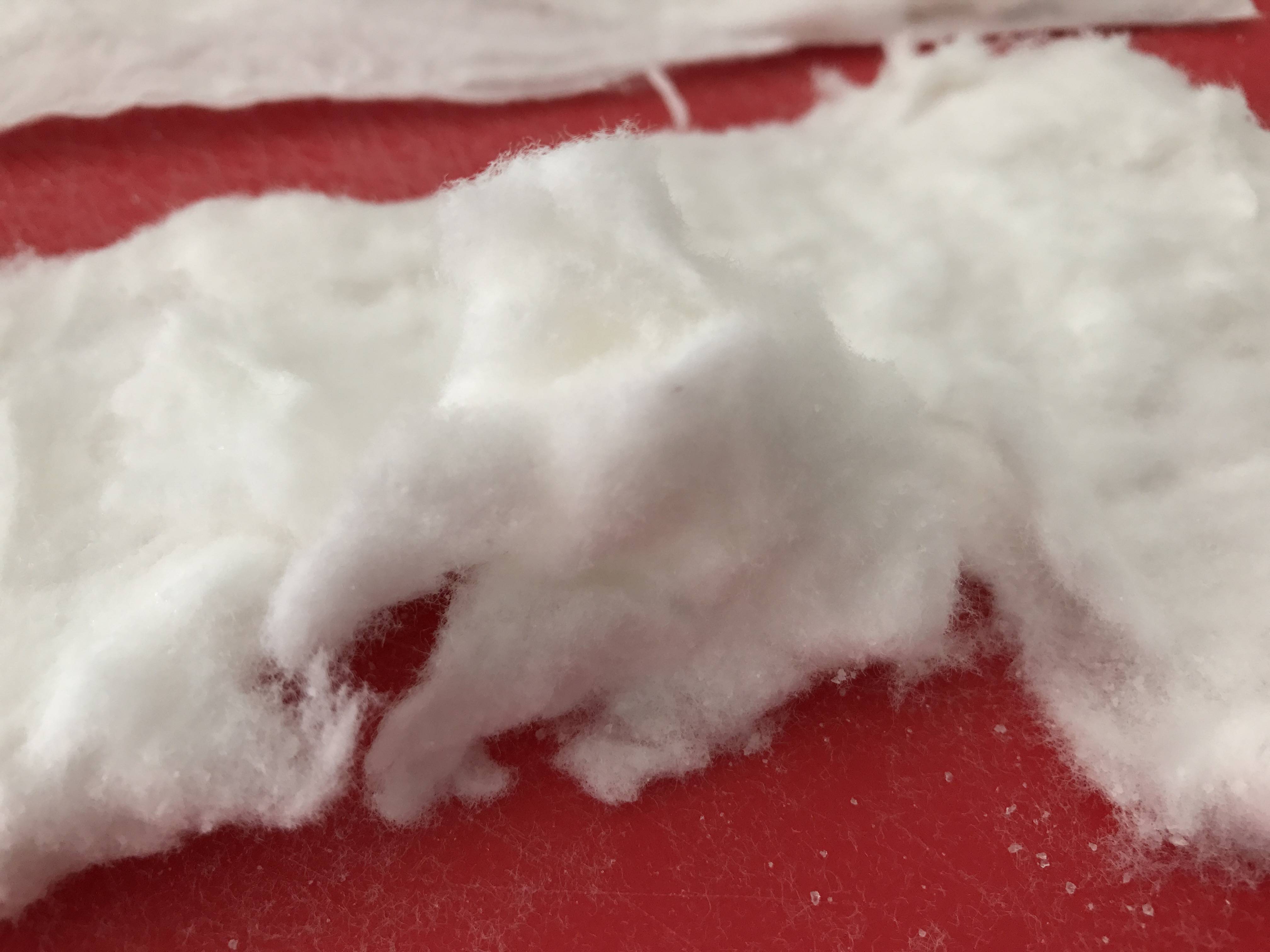 Baby Diaper Nappy Disposable